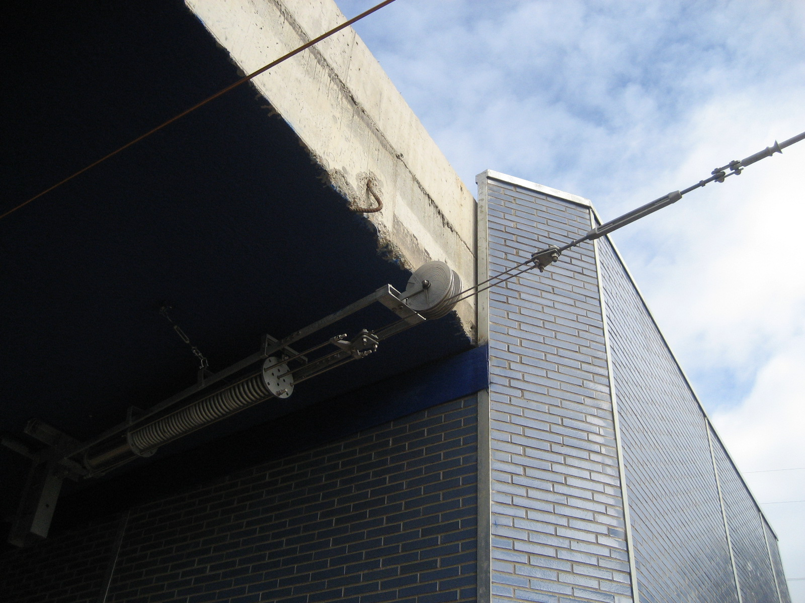 Resort for tensioning overhead contact lines